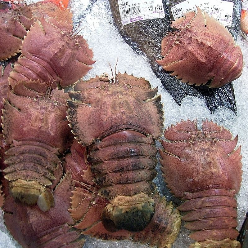 オオバウチワエビ Japanese fan lobster Species Ibacus novemdentatus Familia Scyllaridae Location 宮崎県宮崎市青島 Copyright OpenCage